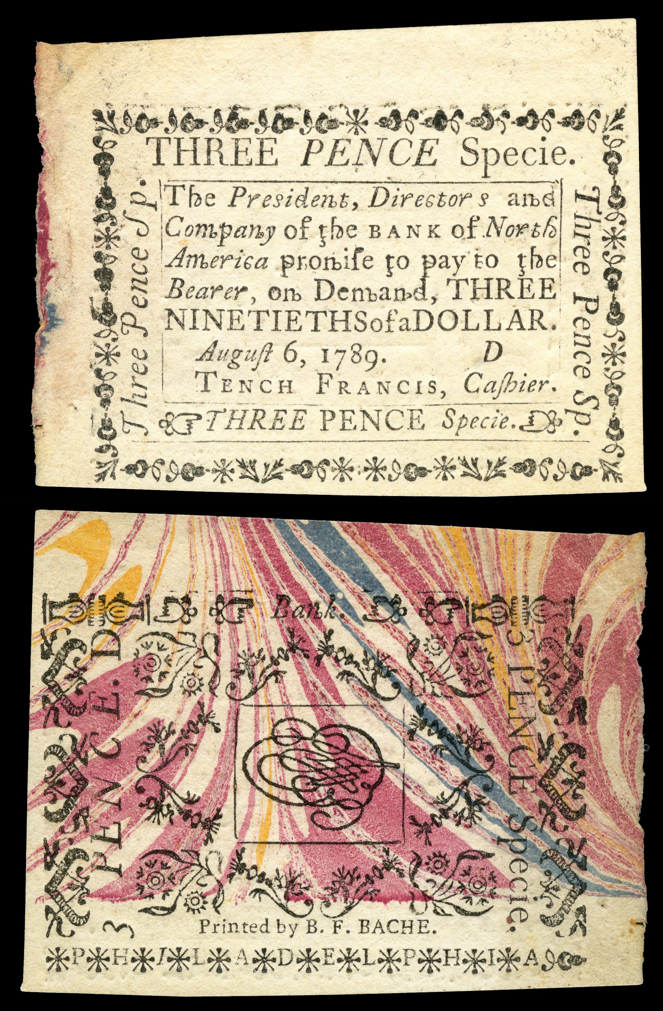 Three pence Colonial currency from the Province of Pennsylvania. Engraved signature of Trench Francis. Printed by Benjamin Franklin Bache on specialized paper acquired by Benjamin Franklin.